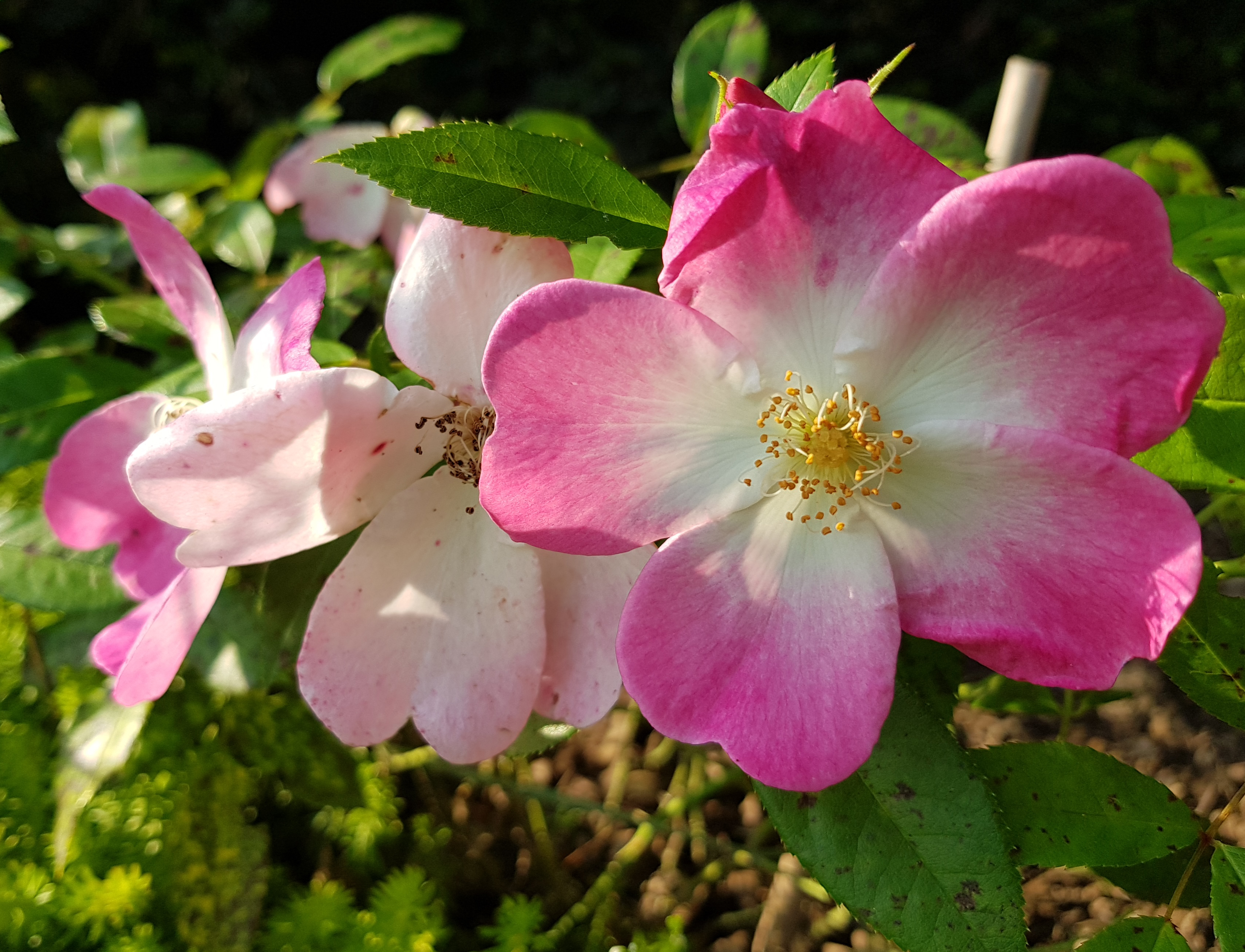 Rose Juliana von Stolberg in einem Garten der Oranienstadt Dillenburg